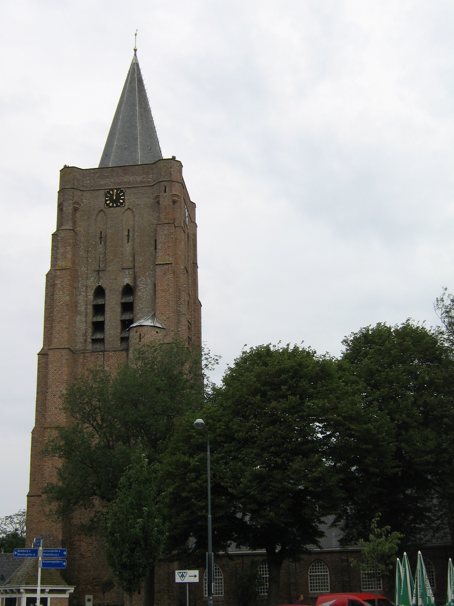 Church in Oostkapelle, Veere community, Netherlands